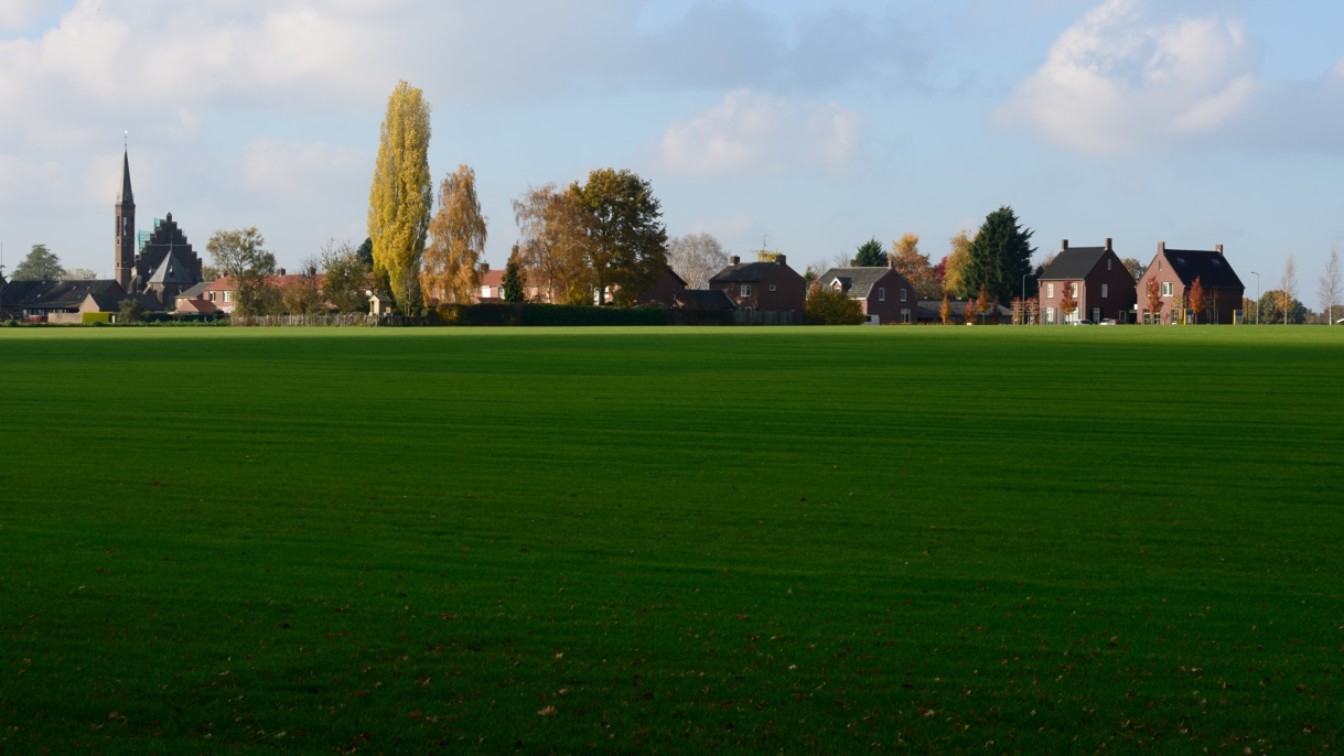 Merselo (Venray, NL) from Pas 121111